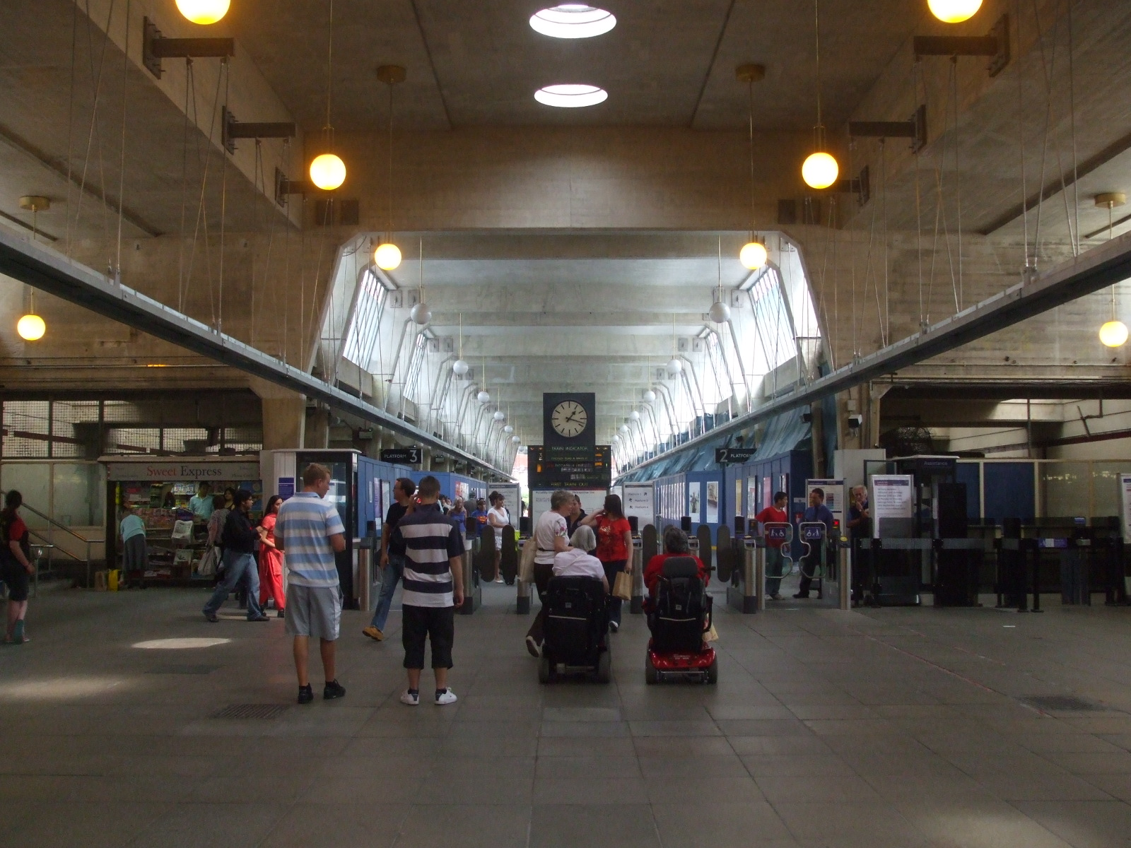 Uxbridge tube station ticket hall area, looking east towards the platforms, presently undergoing refurbishment (July 2008).